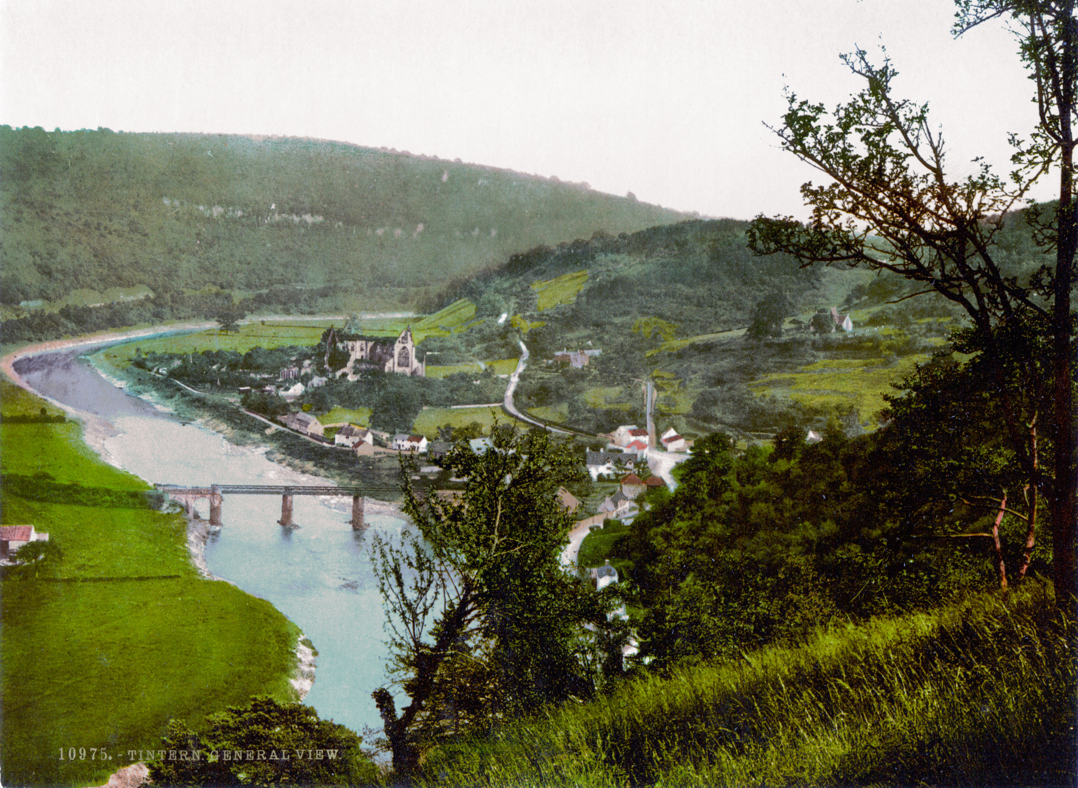 Tintern Abbey